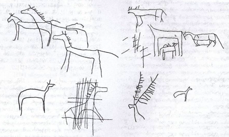 Petroglyphs from the Tsalka area in southern Georgia, probably from the Mesolithic era.